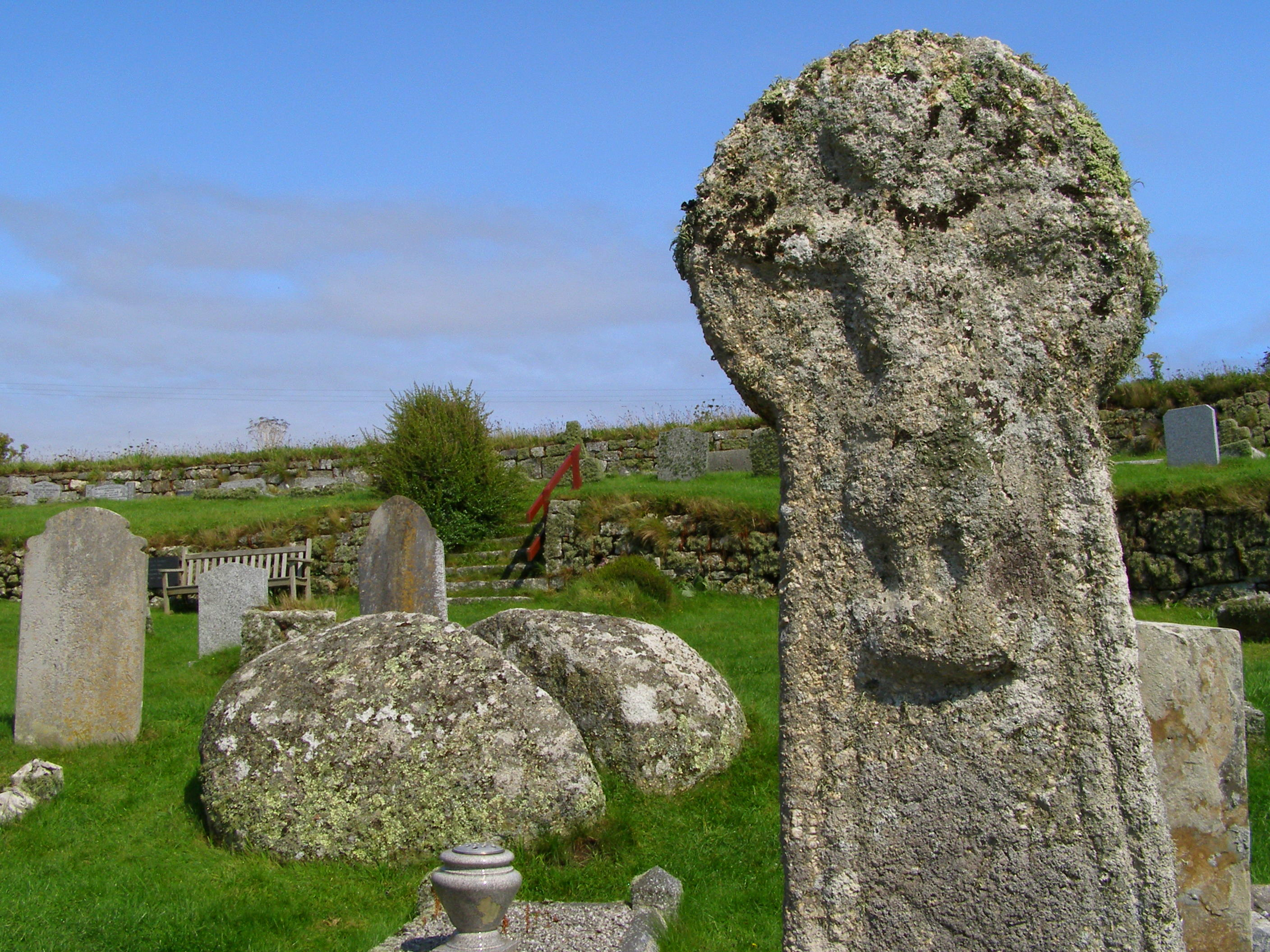 Part of the parish churchyard at St Levan, Cornwall. On the left is St Levan's stone.